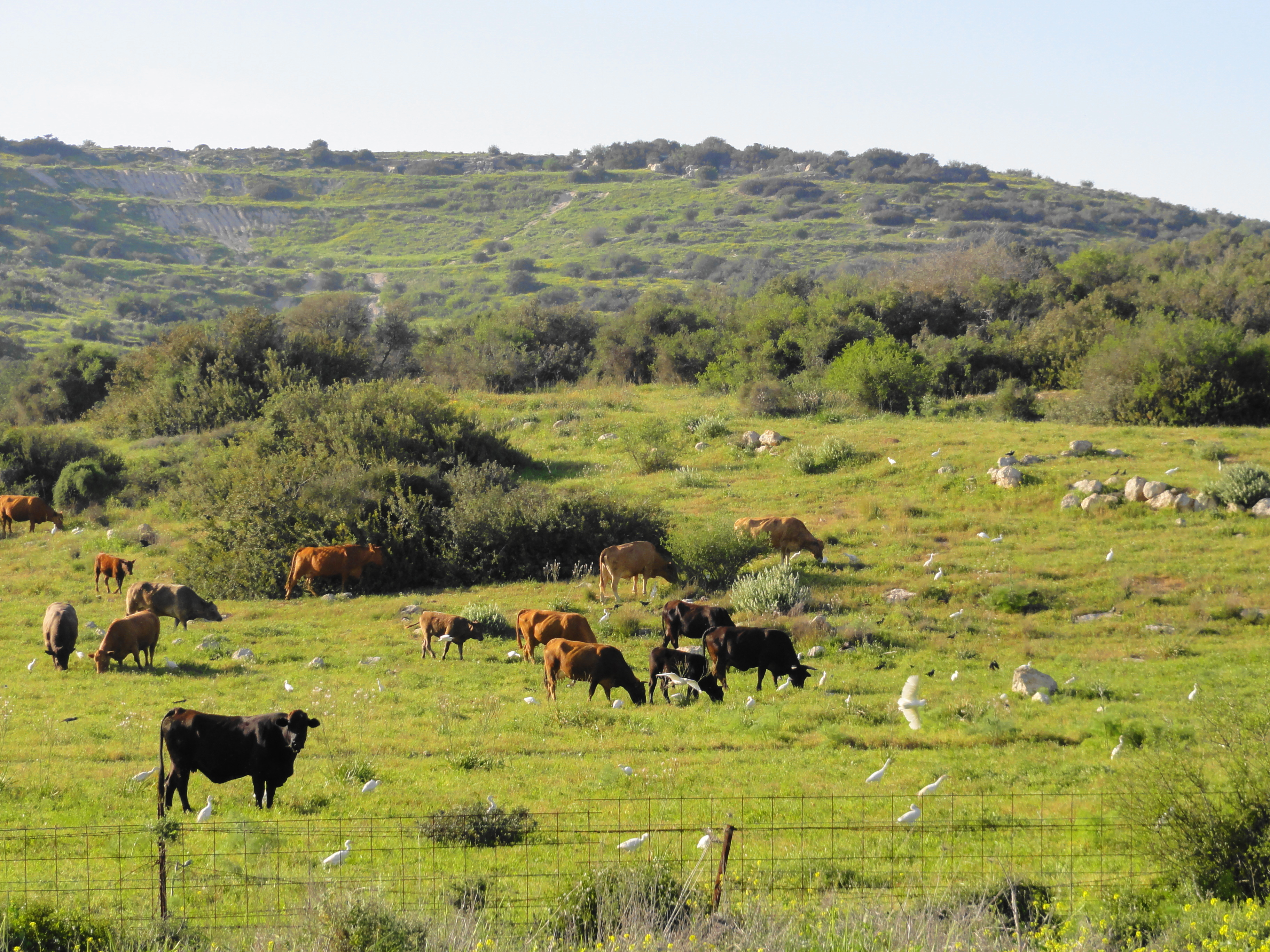 Cattle